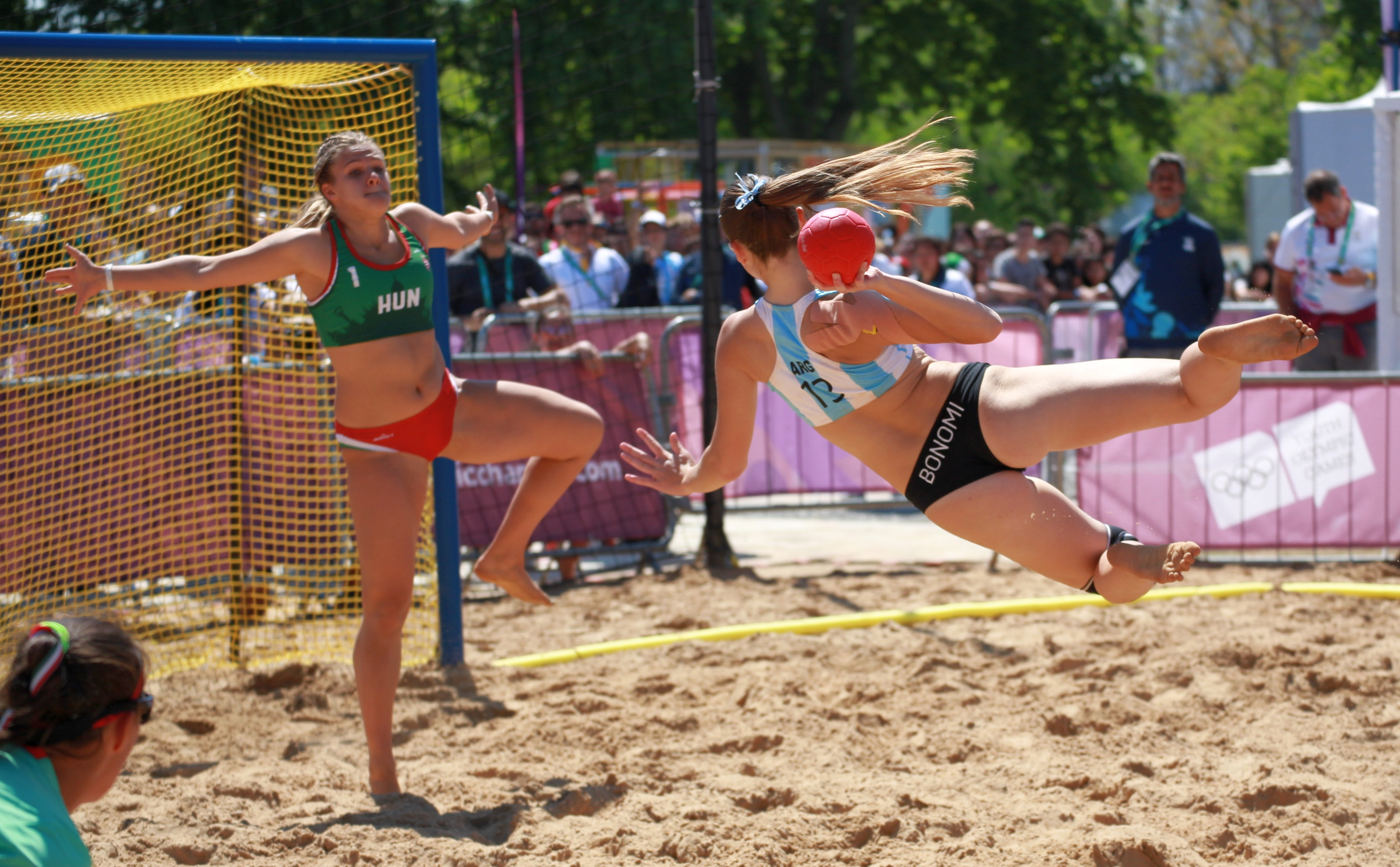 Beach handball at the 2018 Summer Youth Olympics in Buenos Aires at 13 October 2018 – Girls Semifinal – Hungary-Argentina 1:2